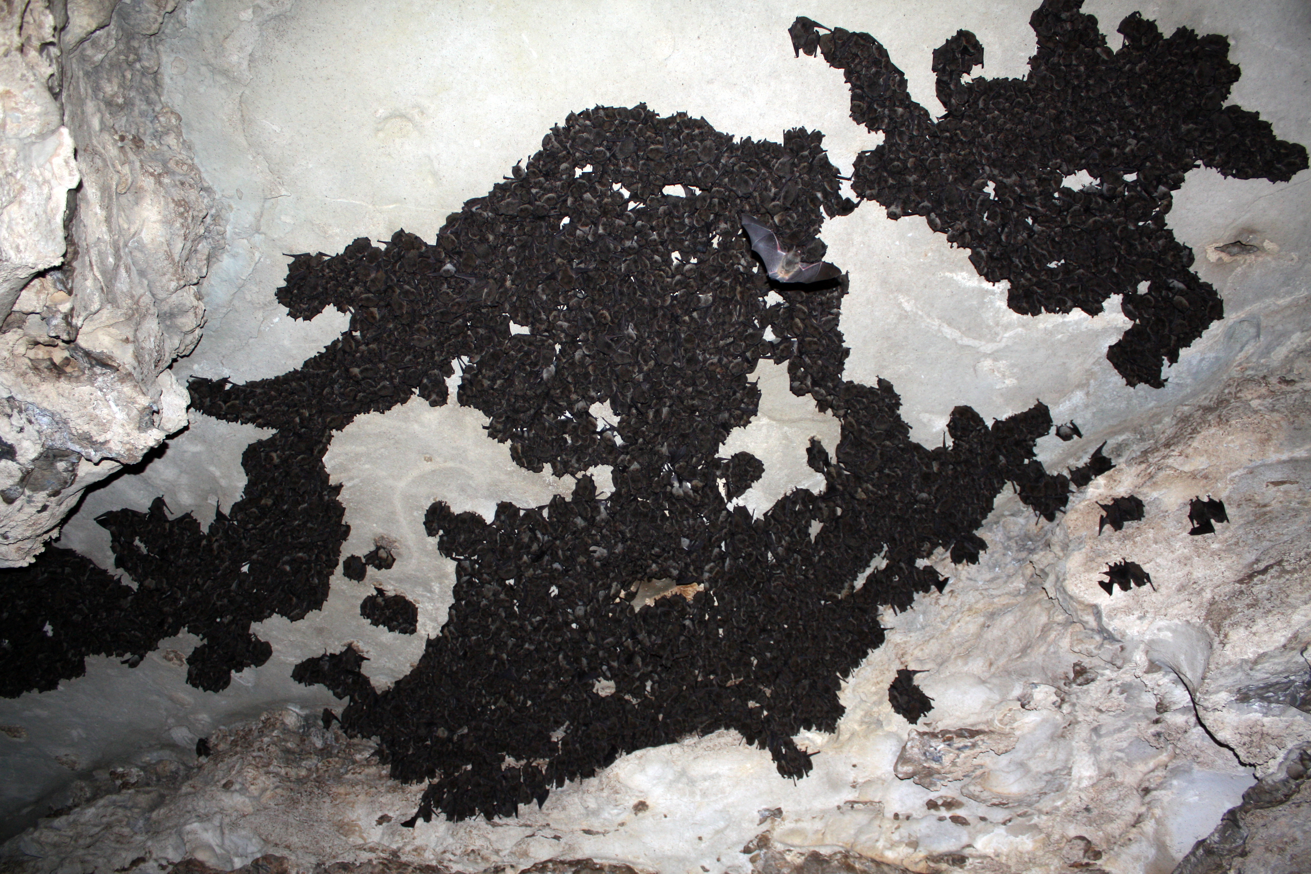 Myotis grisescens at a large hibernaculum, photographed for a population estimate